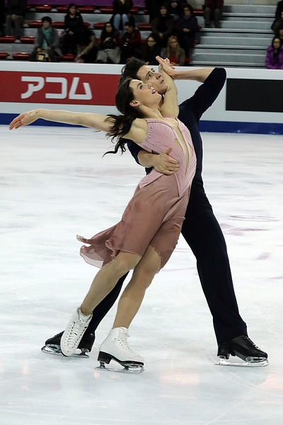 Tessa Virtue and Scott Moir at the 2016 Grand Prix Final